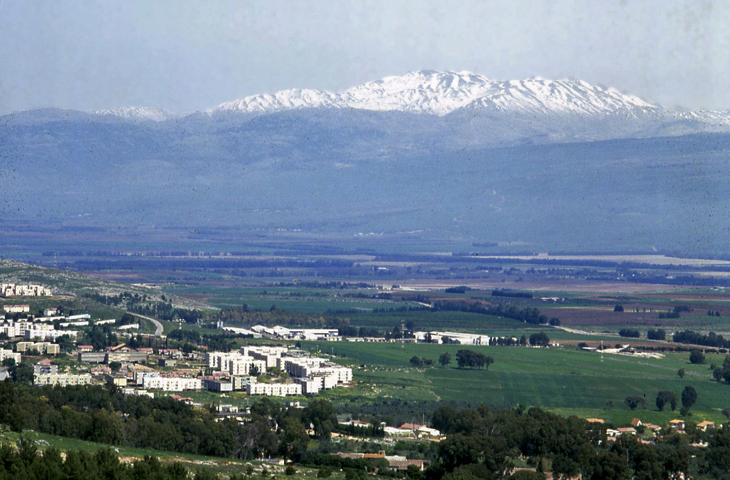 Hula Valley and Mount Hermon, as seen from Rosh Pina. Hatzor Haglilit at bottom-left.